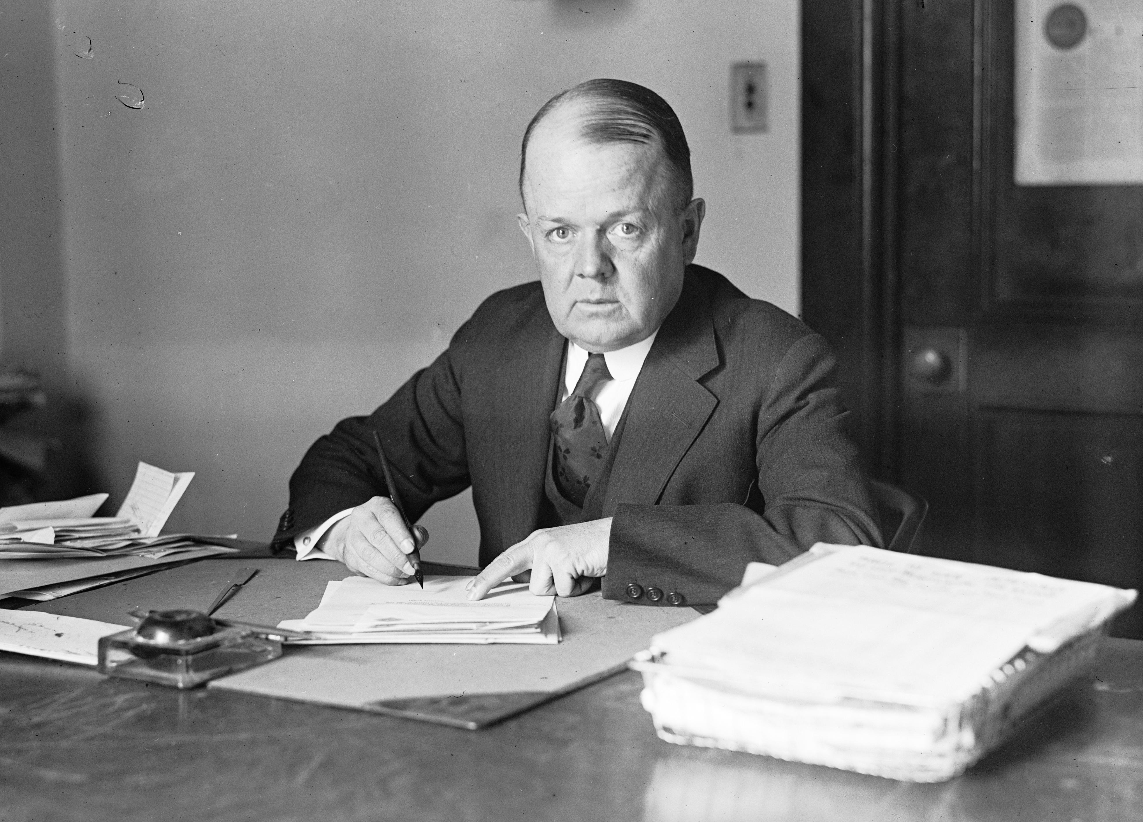 Robert W. Woolley at his desk